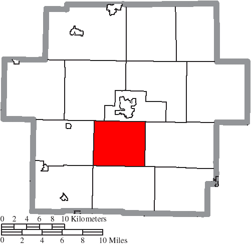 Map of the municipal and township boundaries of Carroll County, Ohio, United States, as of the 2000 census, with the location of Union Township highlighted. Township borders are shown only in unincorporated areas in order to differentiate incorporated and unincorporated areas more clearly.